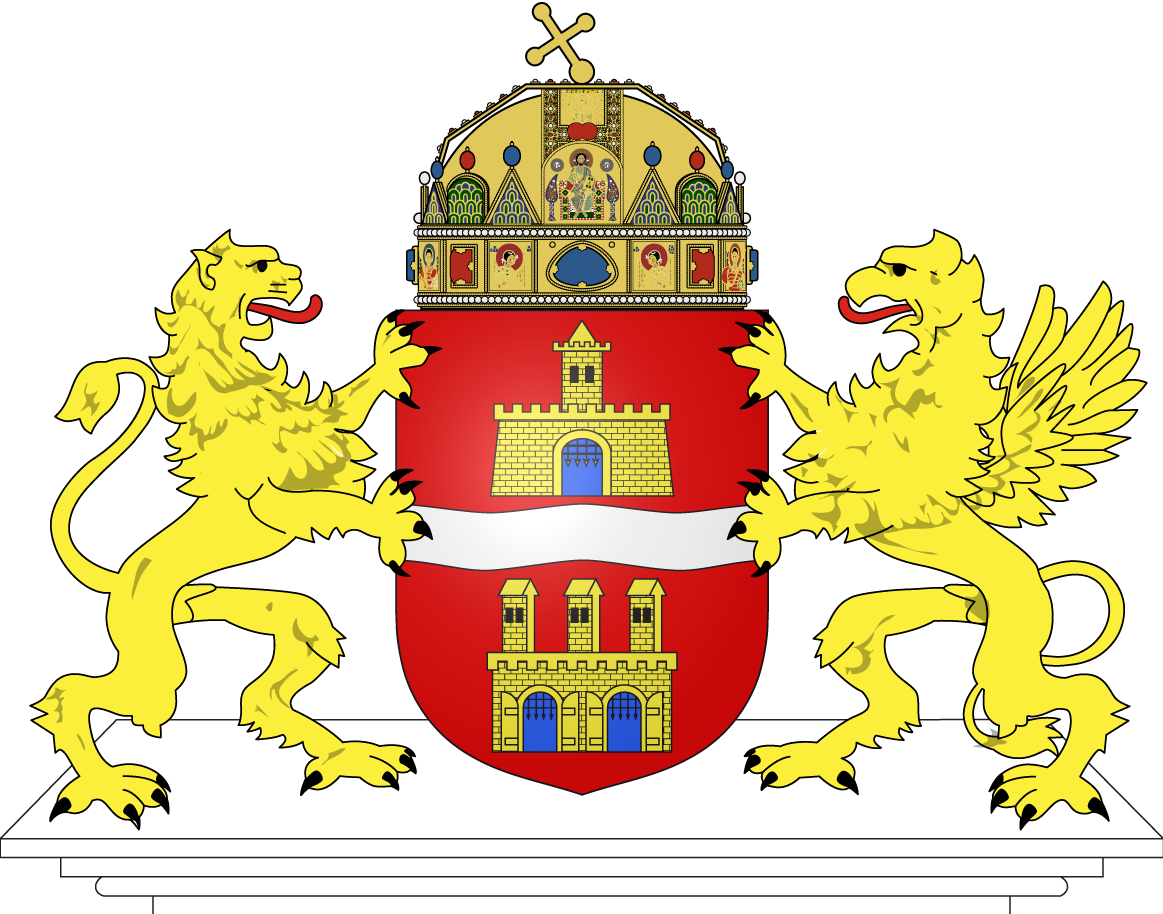 coat of arms of Budapest